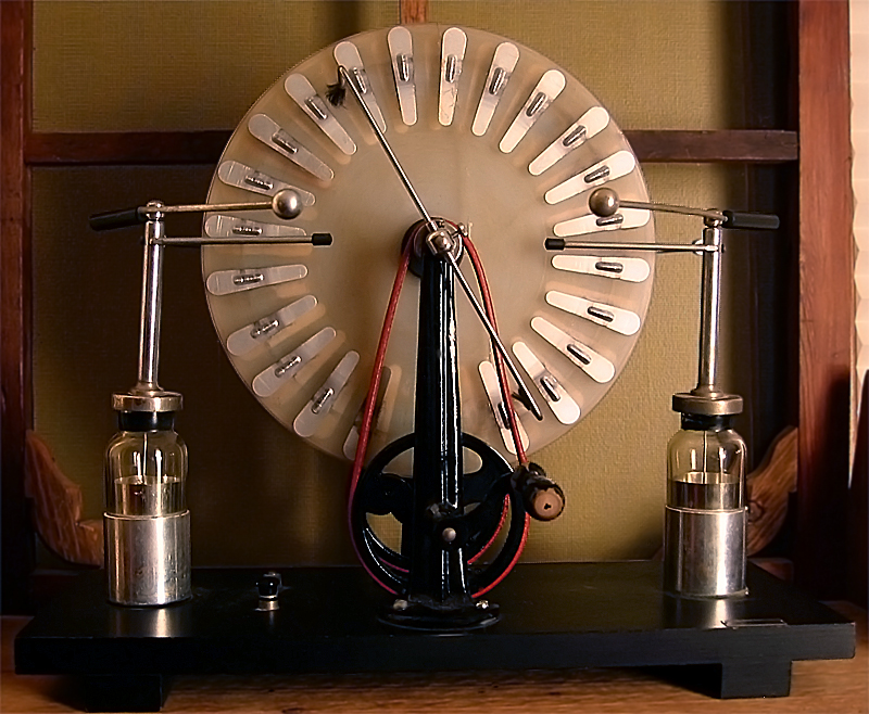 A Wimshurst machine, an electrostatic generator which generates high voltage static electricity with two counterrotating disks turned by a crank.